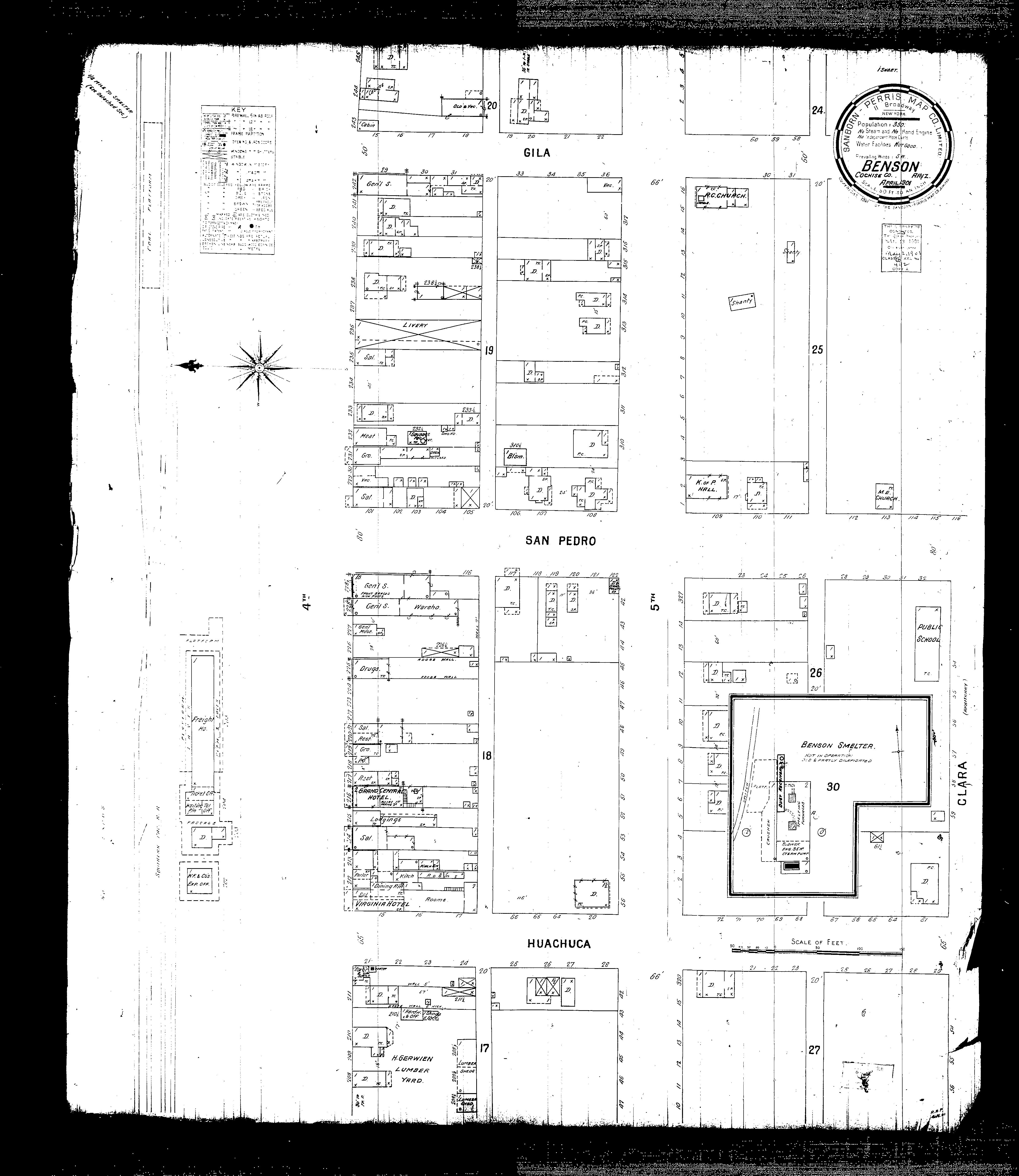 Map of Benson, Arizona in 1901. Sanborn Fire Insurance Company.